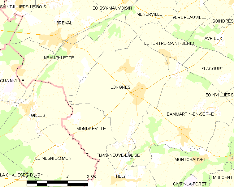 Map of French municipality Longnes